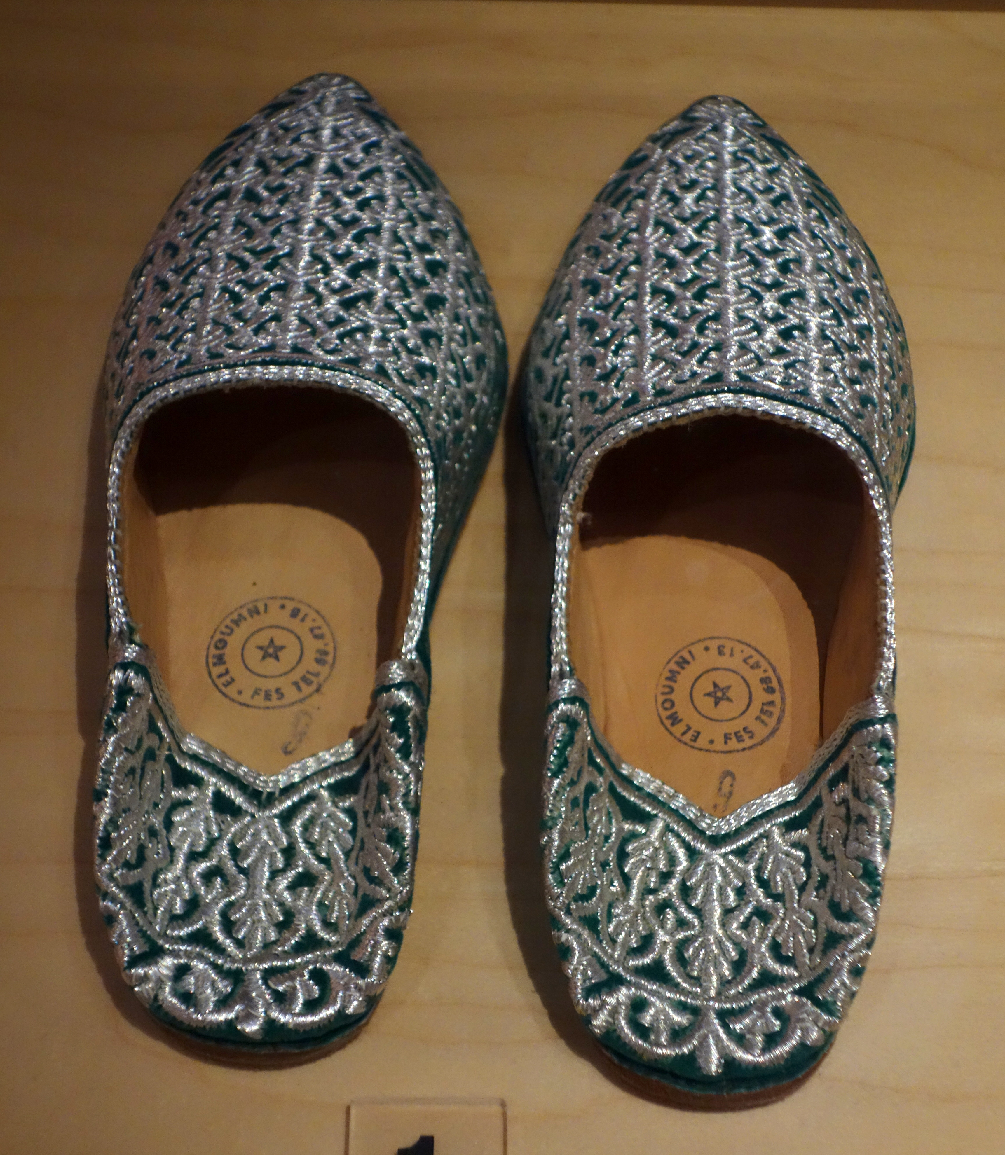 Exhibit in the Bata Shoe Museum, Toronto, Ontario, Canada. This item is old enough so that its design is in the public domain. The museum permitted photography without restriction.